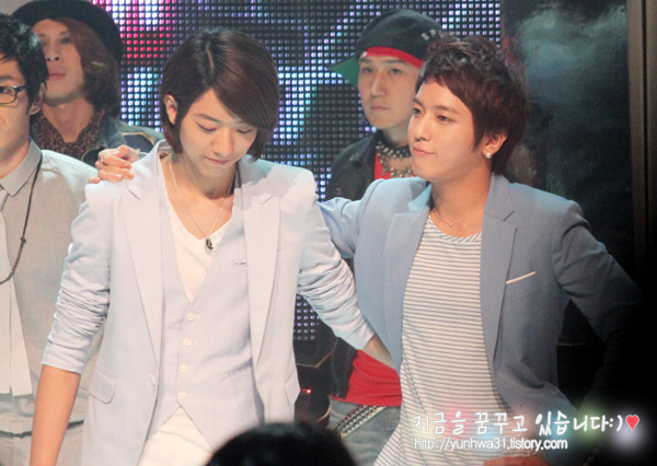 Lee Jung-shin and Jung Yong-hwa of CNBLUE during the recording of Mnet's M Countdown on June 3, 2010.